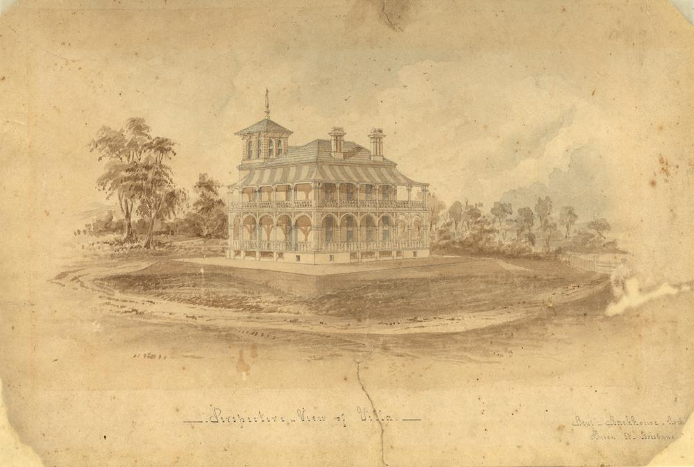 Perspective drawing of Villa Fernberg, Brisbane, ca. 1864 This perspective drawing by architect Benjamin Backhouse shows Fernberg Villa. The villa was erected in 1864 - 1865 and underwent extensive modification s by architect Richard Galley in 1882, becoming an Italiantate-style structure. Fernberg is now Government House.